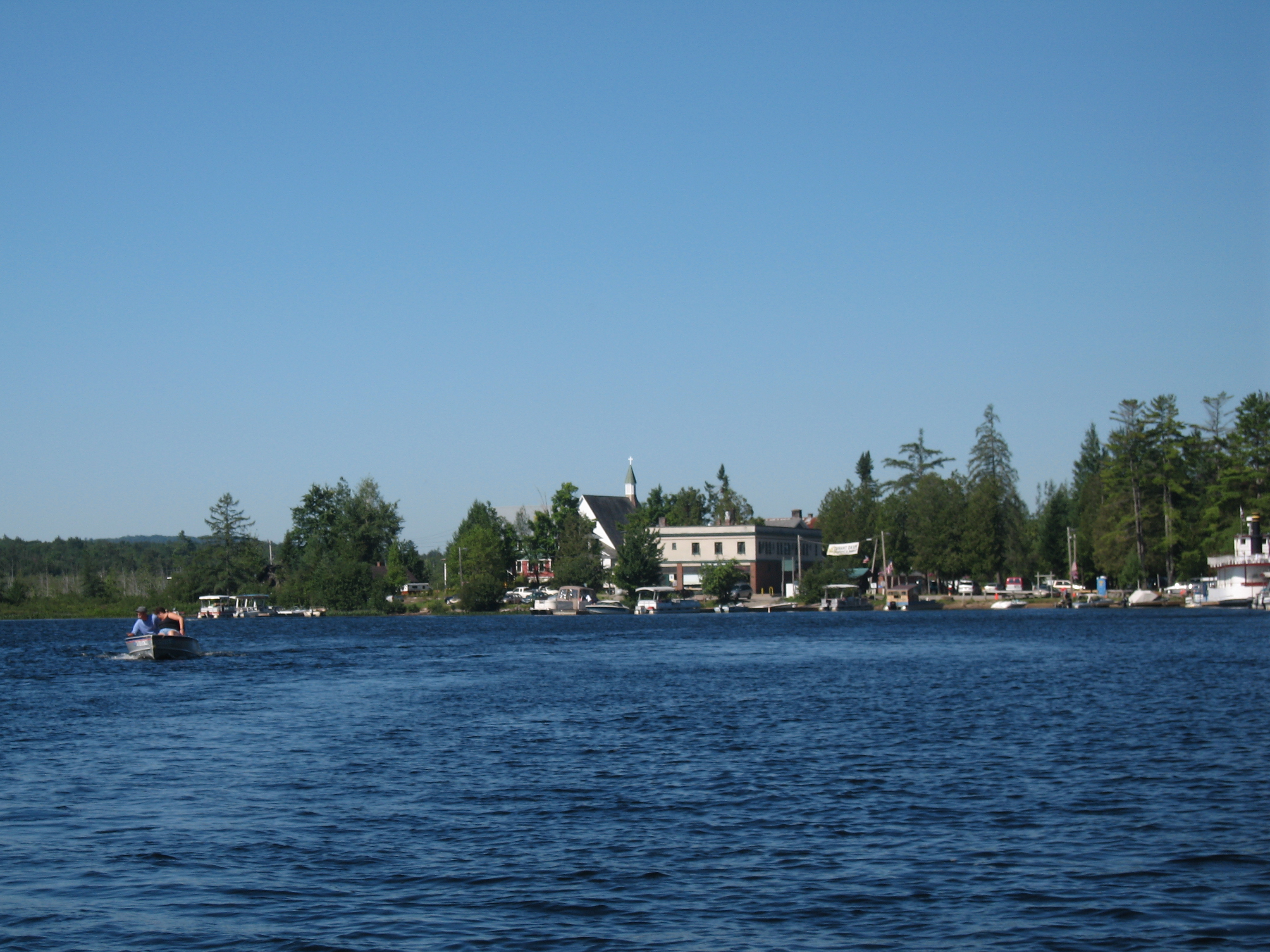 Raquette Lake, NY. The picture shows the south-west coast of the Raquette Lake in the Adirondacks National Park, NY, with some buildings of the village of the same name, among them the two-storeyed building of Raquette Lake Supply, Co. store.